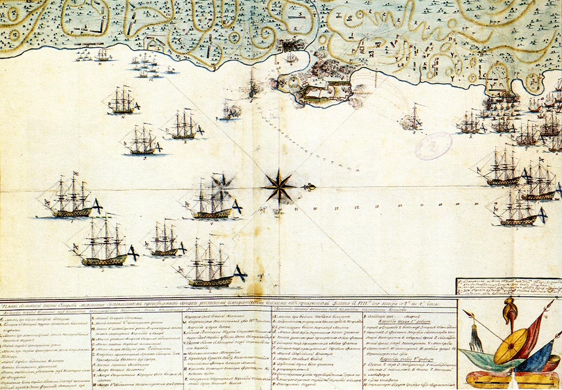 Map of russian navy attack on Mytilene 2-4 november 1771 year. This map was first published in autobiographic book of russian duke Dolgorukov «Записки Ю.В. Долгорукова 1767-1784 гг.»